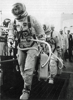 Astronauts Young and Grissom walk up the ramp leading to the elevator that will carry them to the spacecraft for the first manned Gemini mission. They wear Gemini G3C intravehicular suits.